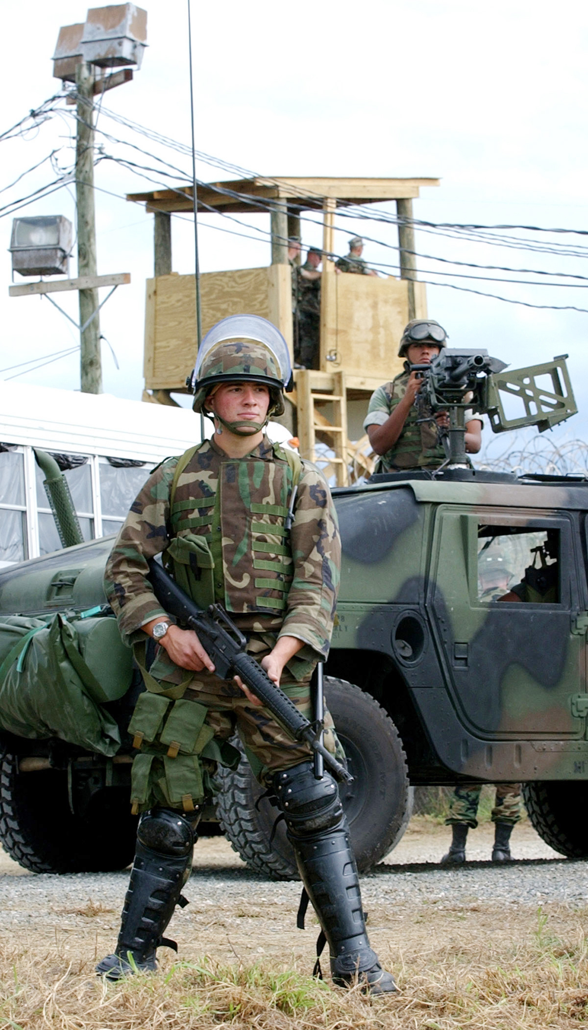 Guantanamo Bay, Cuba, Jan. 10, 2002 -- Marine security teams take up positions during a rehearsal for handling incoming detainees at Camp X-Ray, one of the holding facilities for Taliban and Al Qaida detainees.